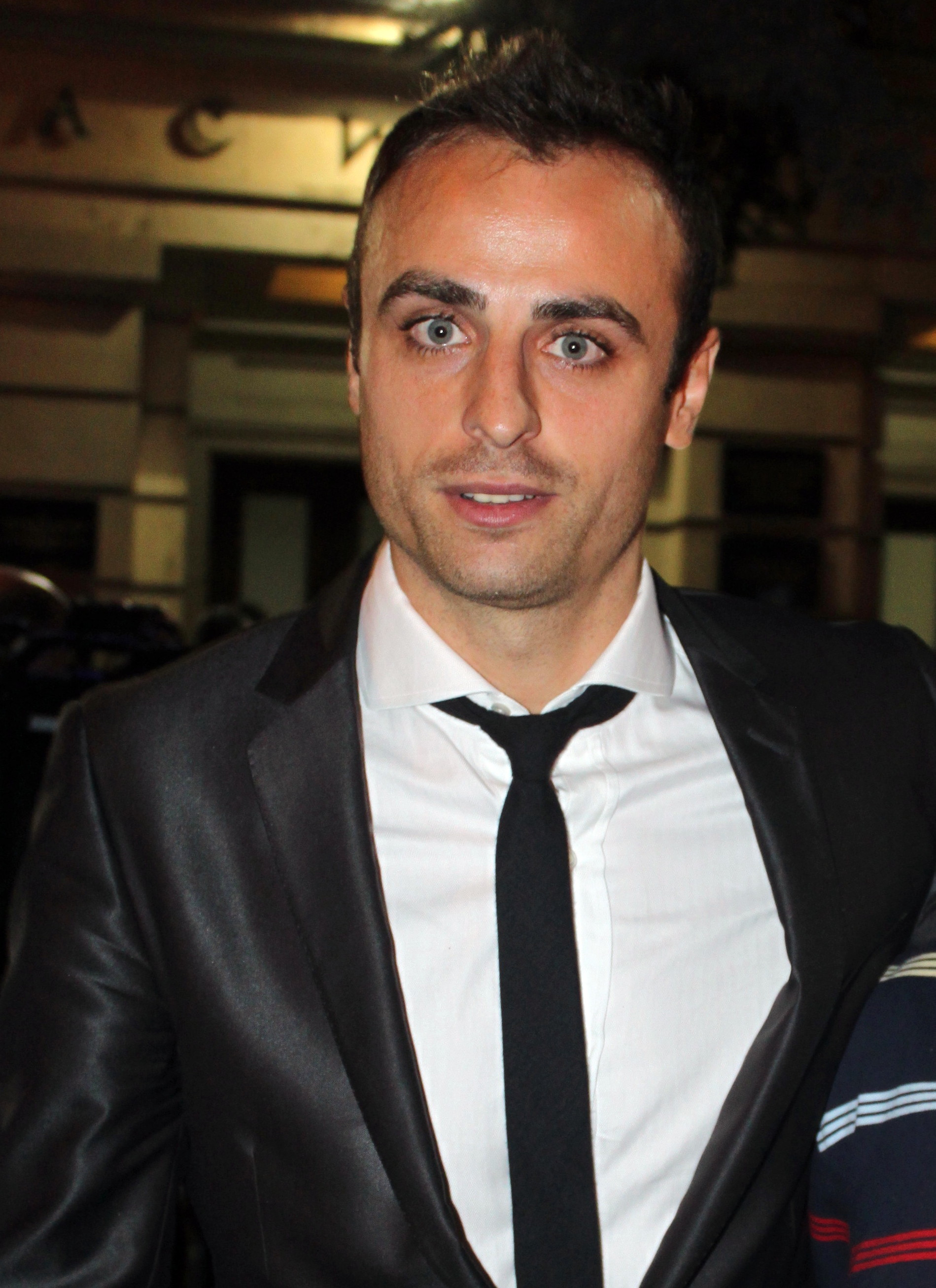 Dimitar Berbatov - biulgarian football player